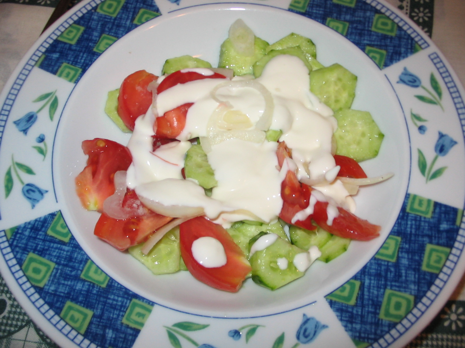 Salad including tomatoes, cucumbers, onions and sour cream